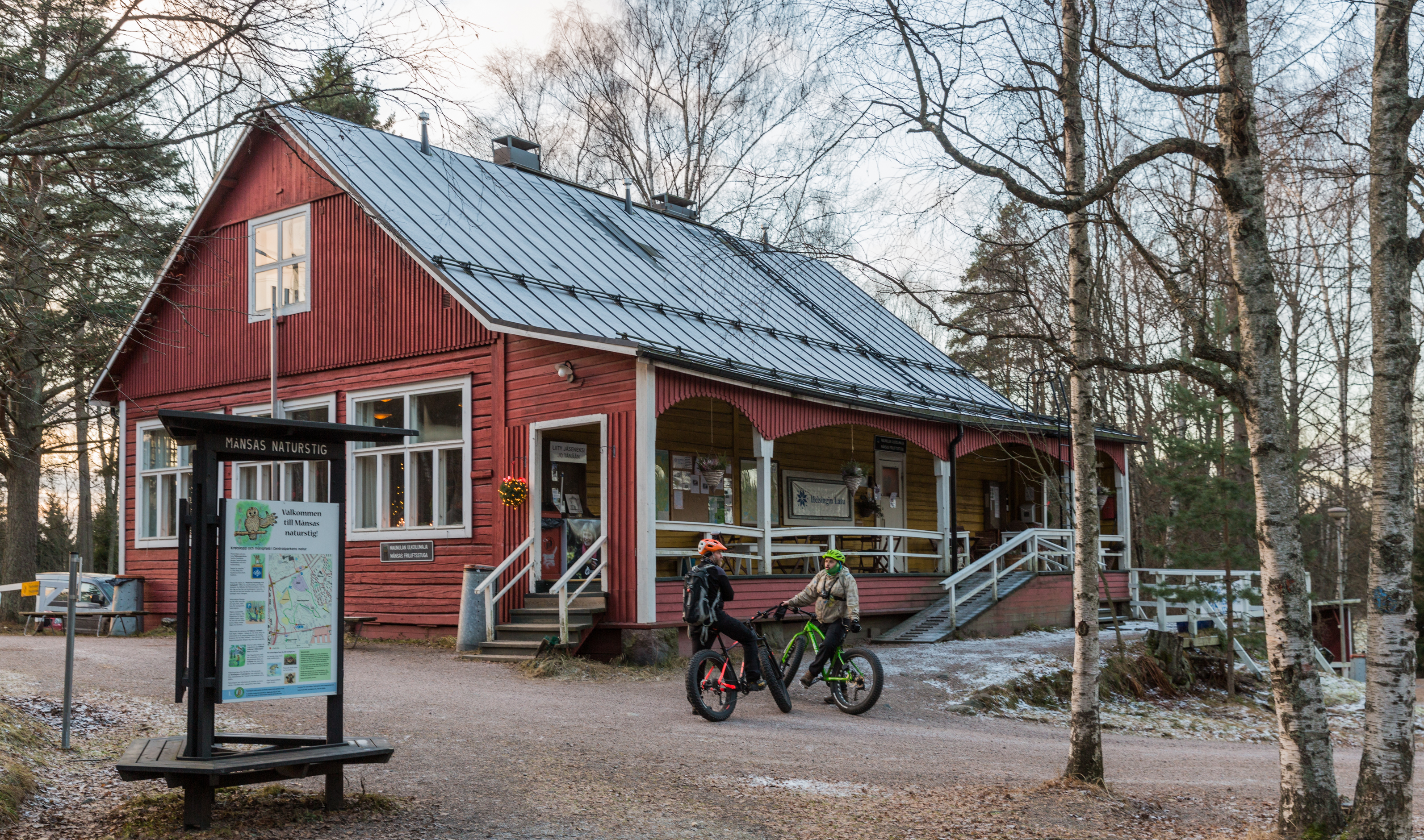 Maunula outdoor hut in Maunulanpuisto district and in Keskuspuisto Park in Helsinki, Finland.